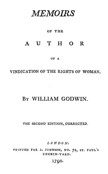 Title page to the second (revised) edition of William Godwin's Memoirs